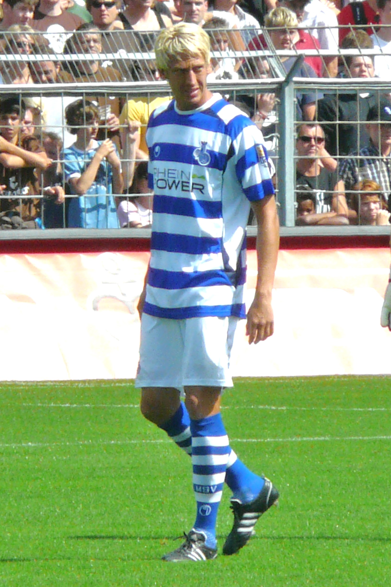 Frank Fahrenhorst as Player from MSV Duisburg